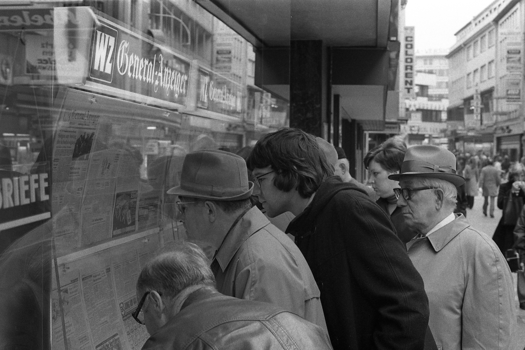 Newspaper-readers at Wuppertal